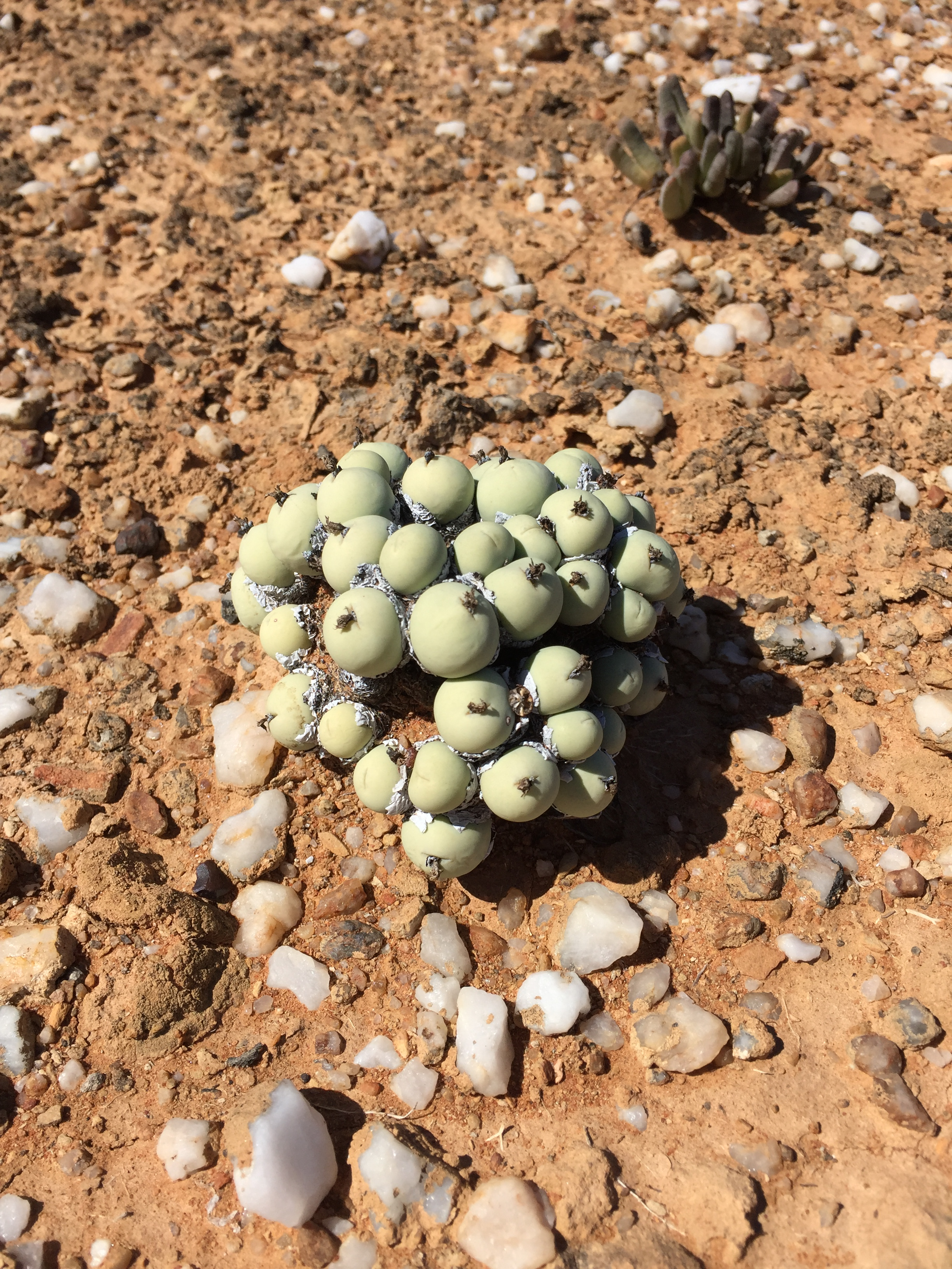 Quartz pebble patch in the area of Knersvlakte. Near crosspoint of the Salt River (Soutrivier) and Route N7, north of Vanrhynsdorp, Namaqualand, Western Cape, South Africa.